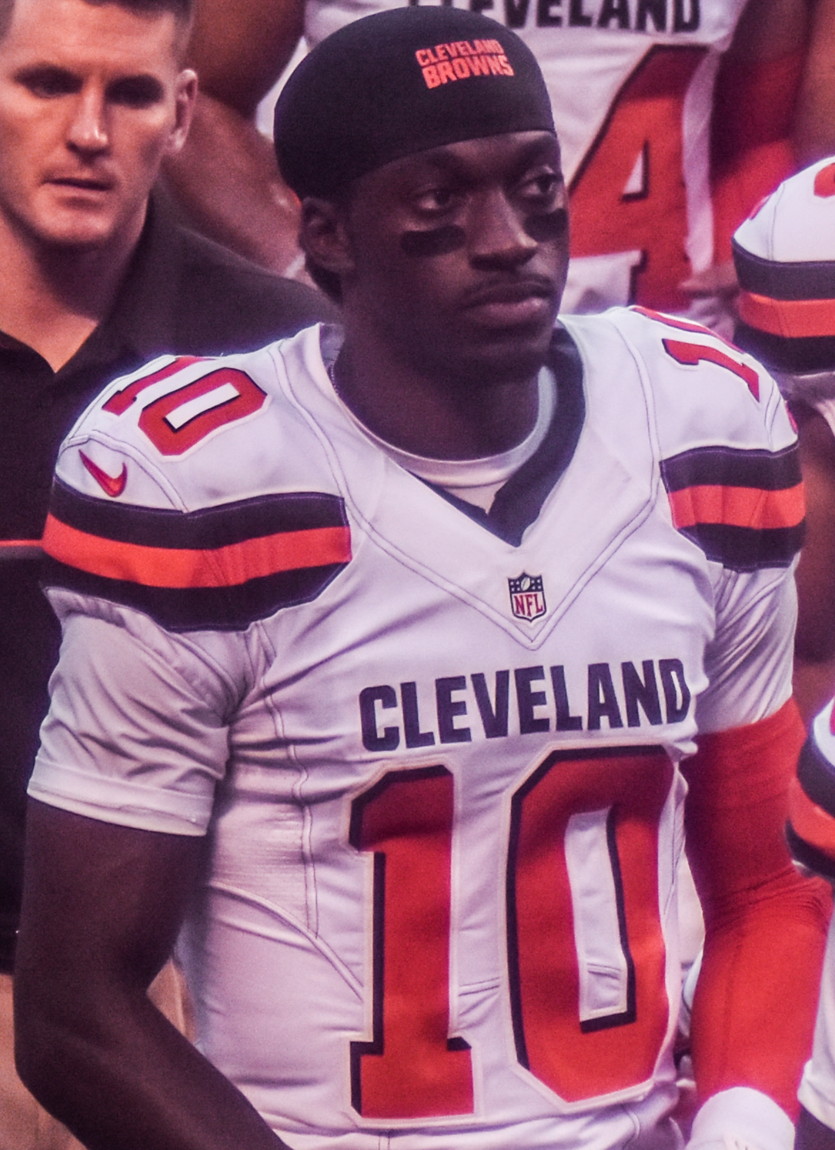 Robert Griffin III in 2016 preseason